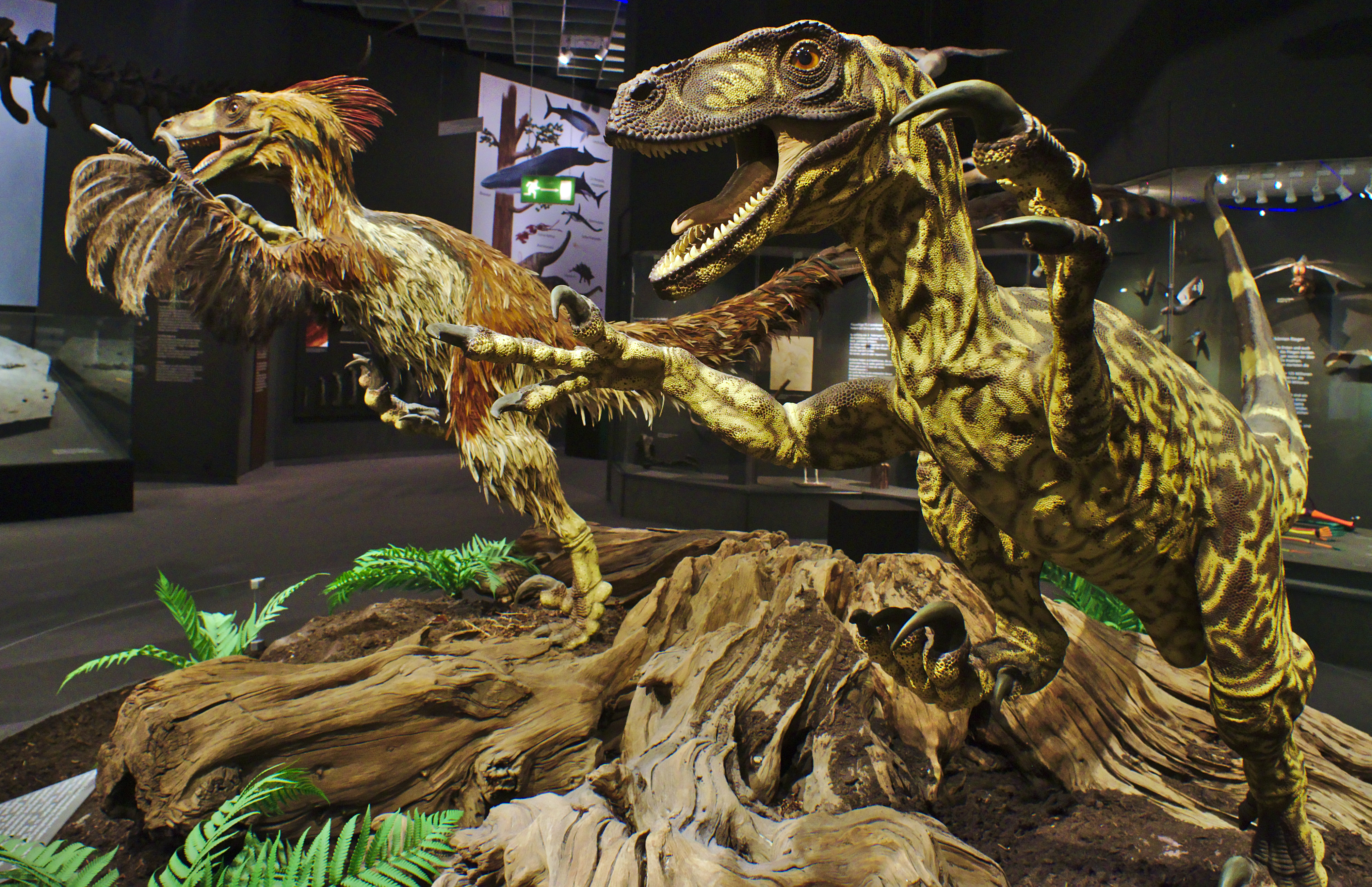 LWL-Museum für Naturkunde, Münster